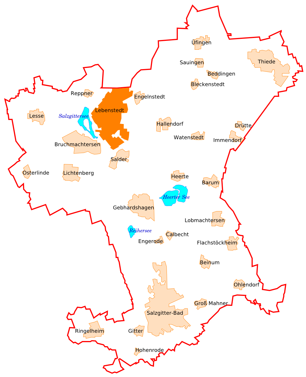 Map of Salzgitter showing the subdivision Lebenstedt